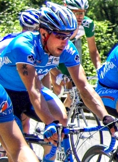 Simone Cadamuro on the 2nd stage of the bicycle race "tour de suisse 2006" - near Mutschellen. 'tour de suisse 5' On White